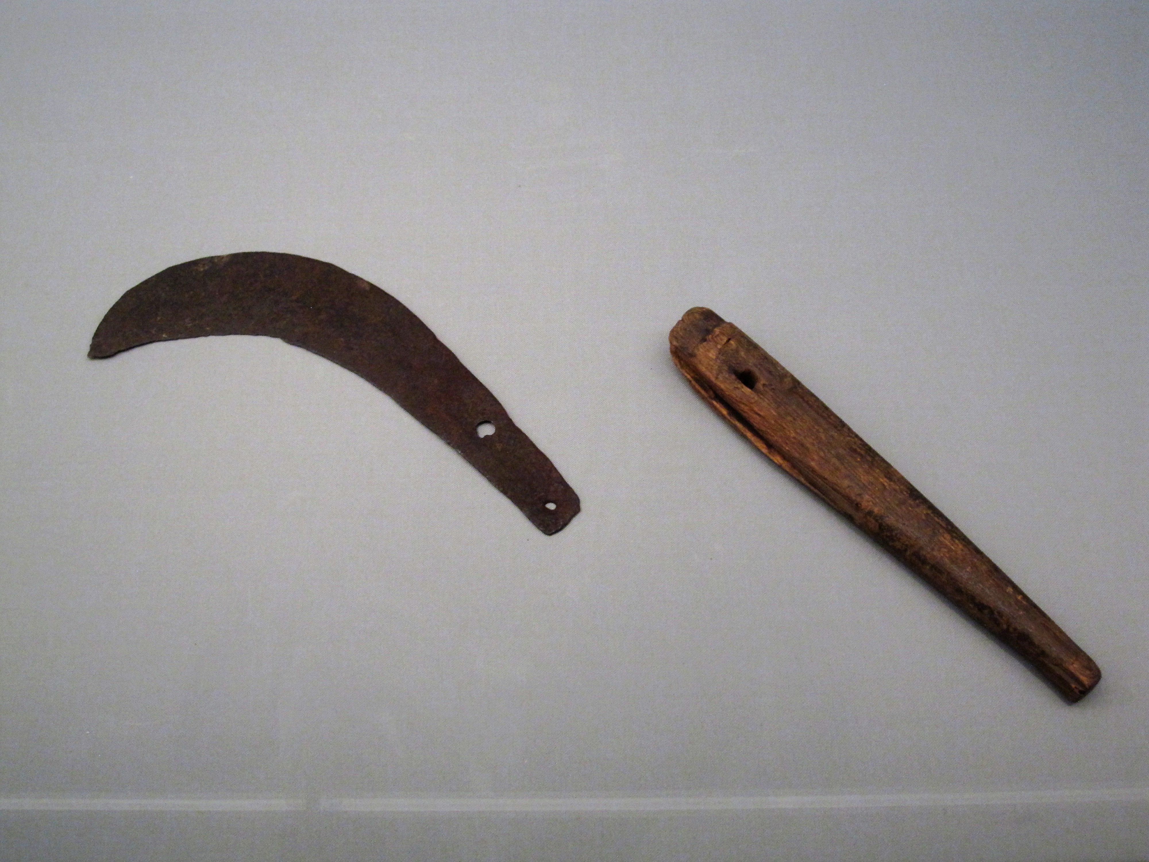 Sickle made in Nara period (Important Cultural Property), from The Gallery of Horyuji Treasures at Tokyo National Museum.